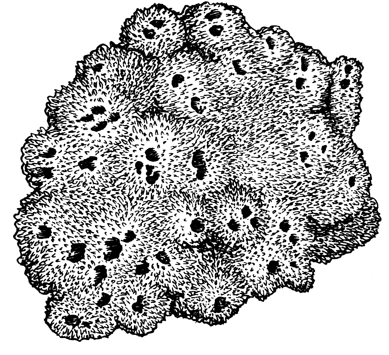 Line art drawing of a sponge.